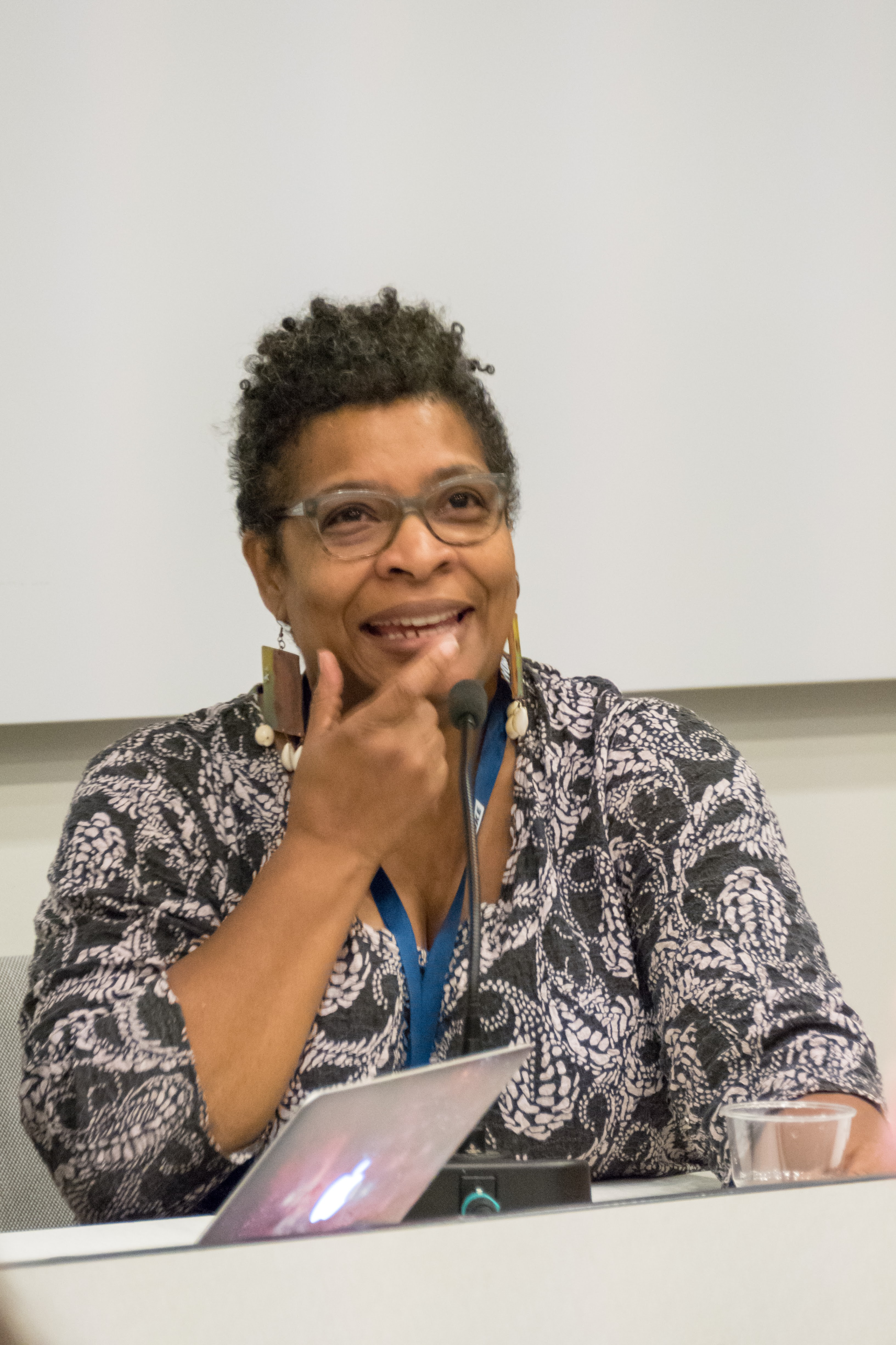 World Science Fiction Convention in Helsinki, 2017. Nalo Hopkinson and Farah Mendlesohn: a Conversation. Nalo Hopkinson